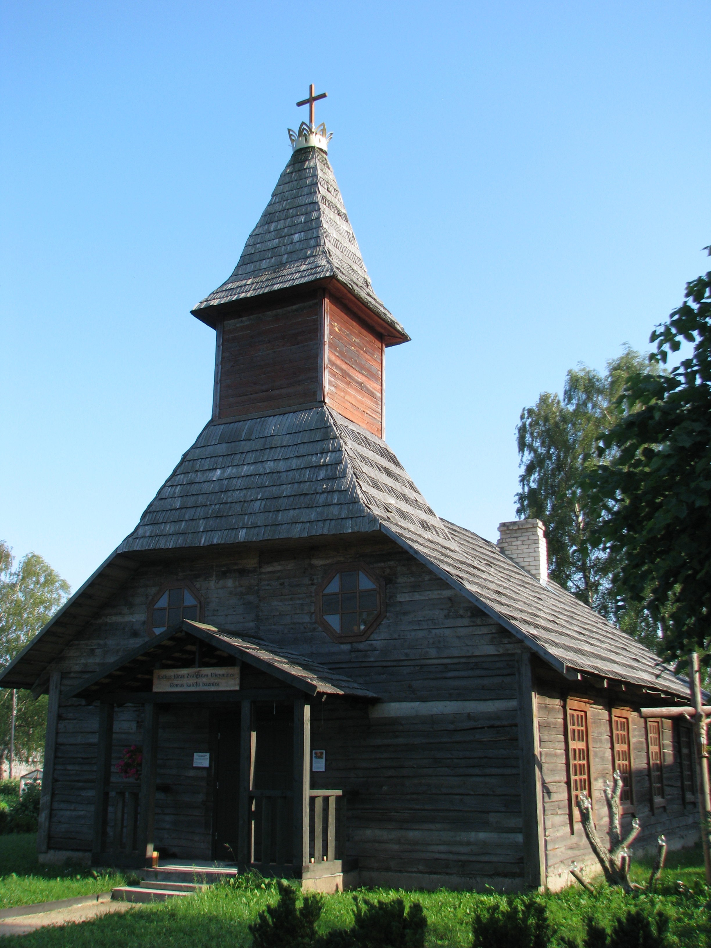 Roman Catholic church of Sea Star Mother of God in Kolka, Latvia. Wooden church built in 1935 in Saka parish. Moved to Kolka in 1997.